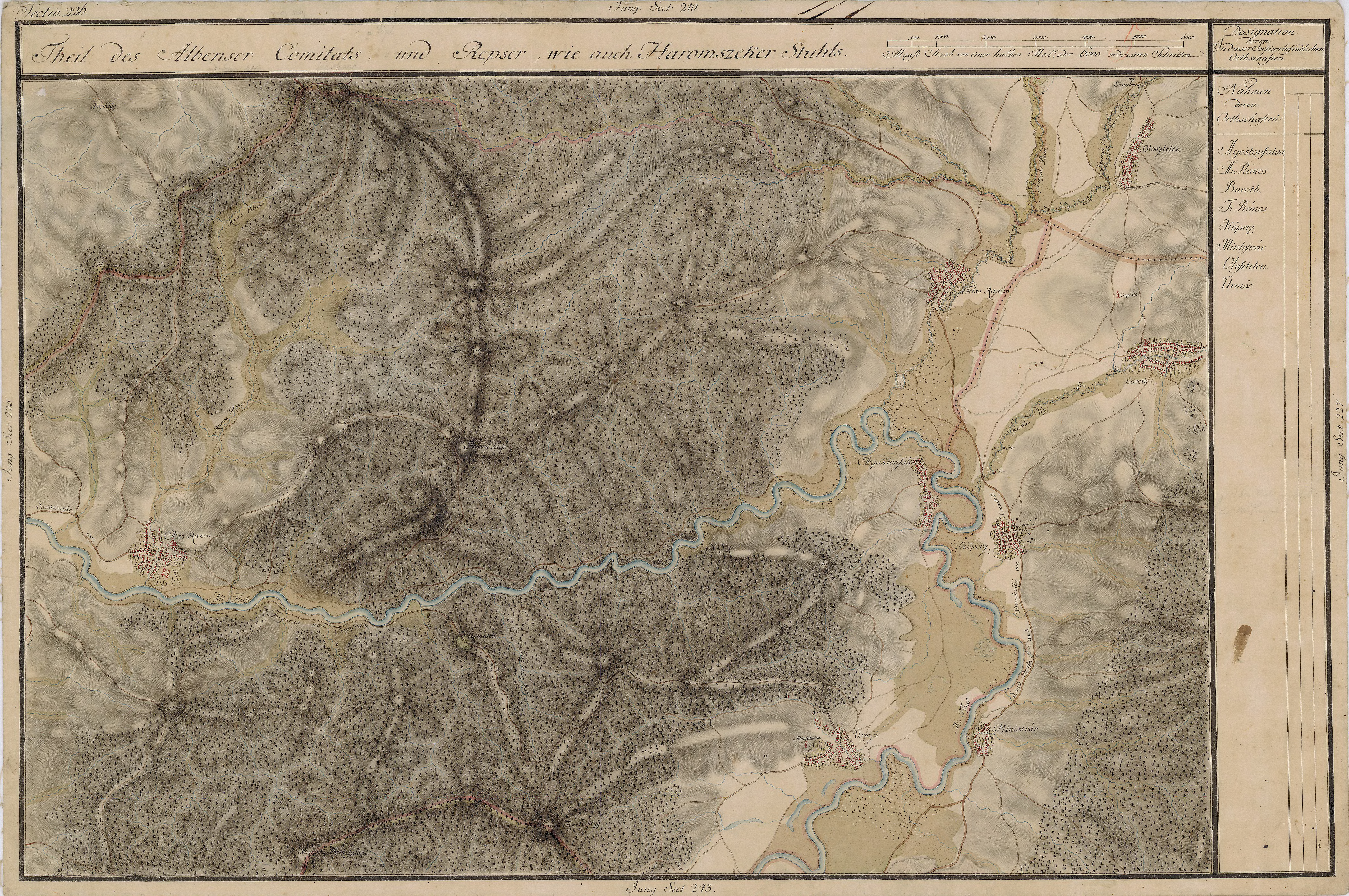 Grand Duchy of Transylvania, 1769-1773. Josephinische Landaufnahme pg.226